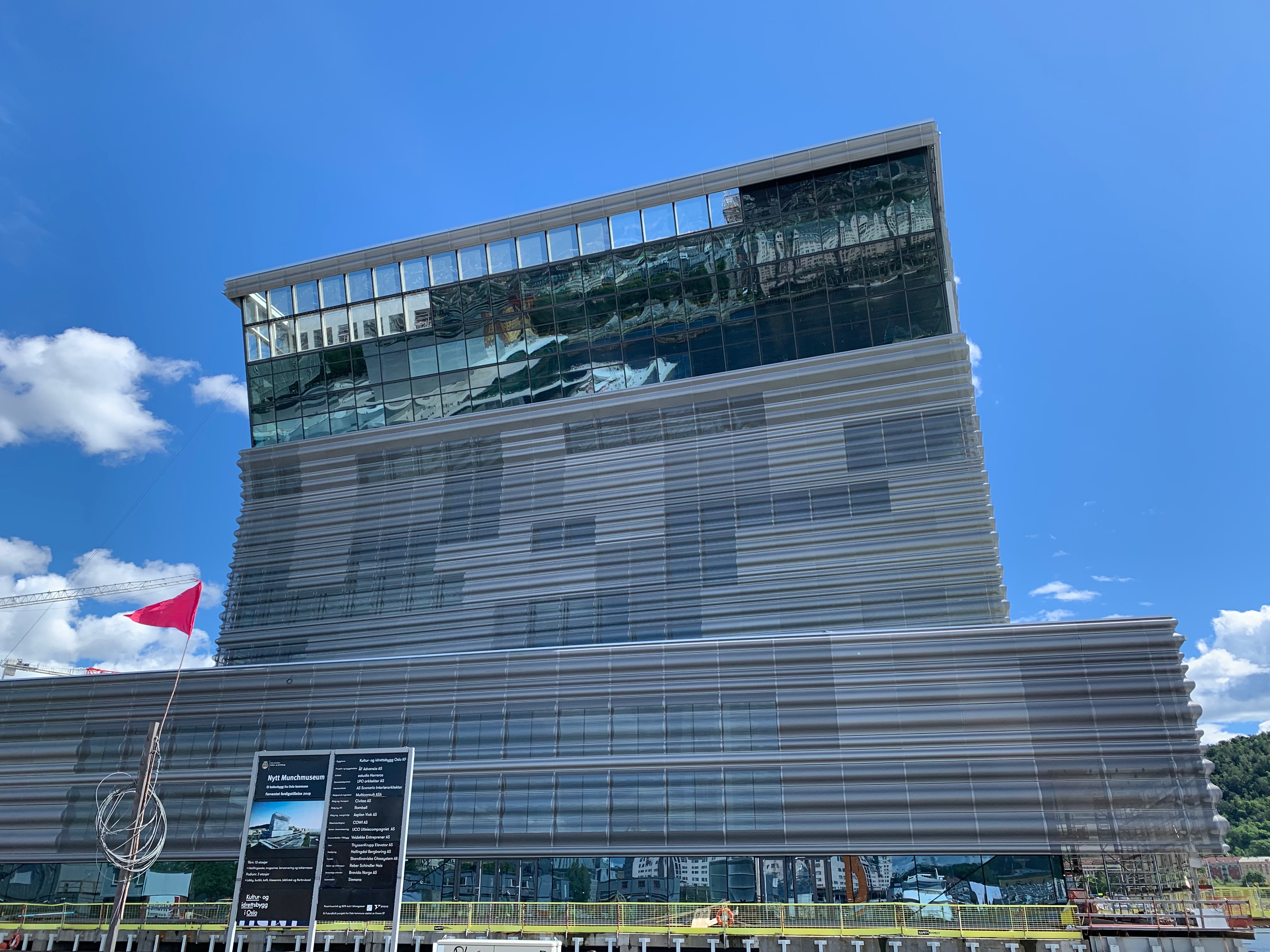 The Munch Museum in Oslo, Norway, under construction in June 2019.